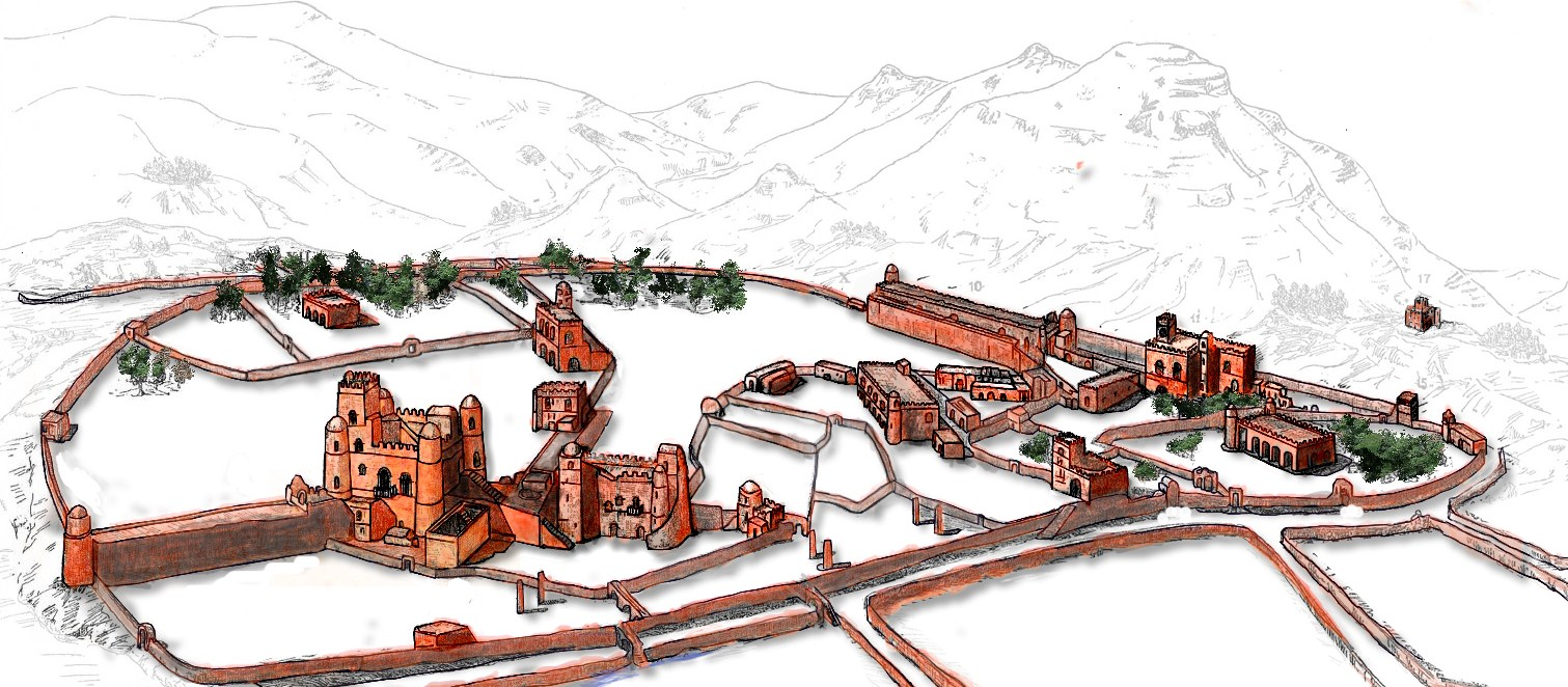 This image is adapted from [1] Applicable License: Creative Commons license: CC0 1.0 Universal As stated in the website.